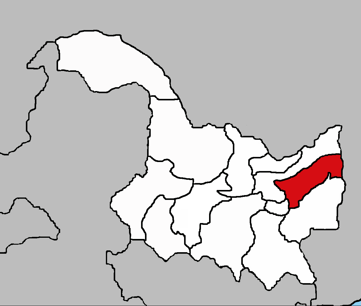 Map of Shuangyashan Prefecture — Heilongjiang Province, China